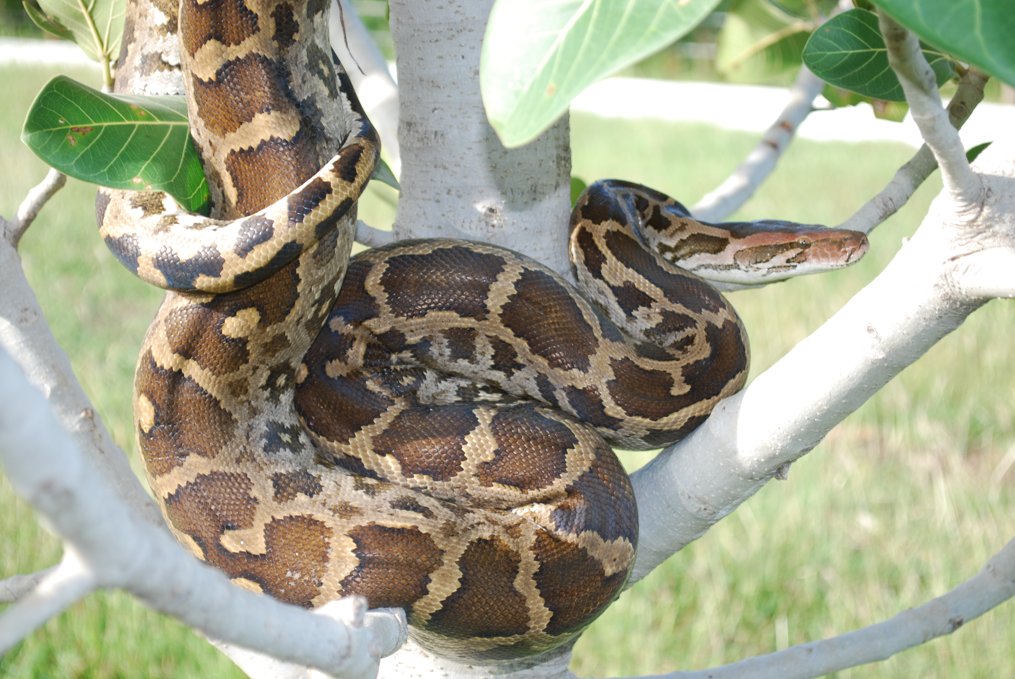 Indian rock python (Python molurus)